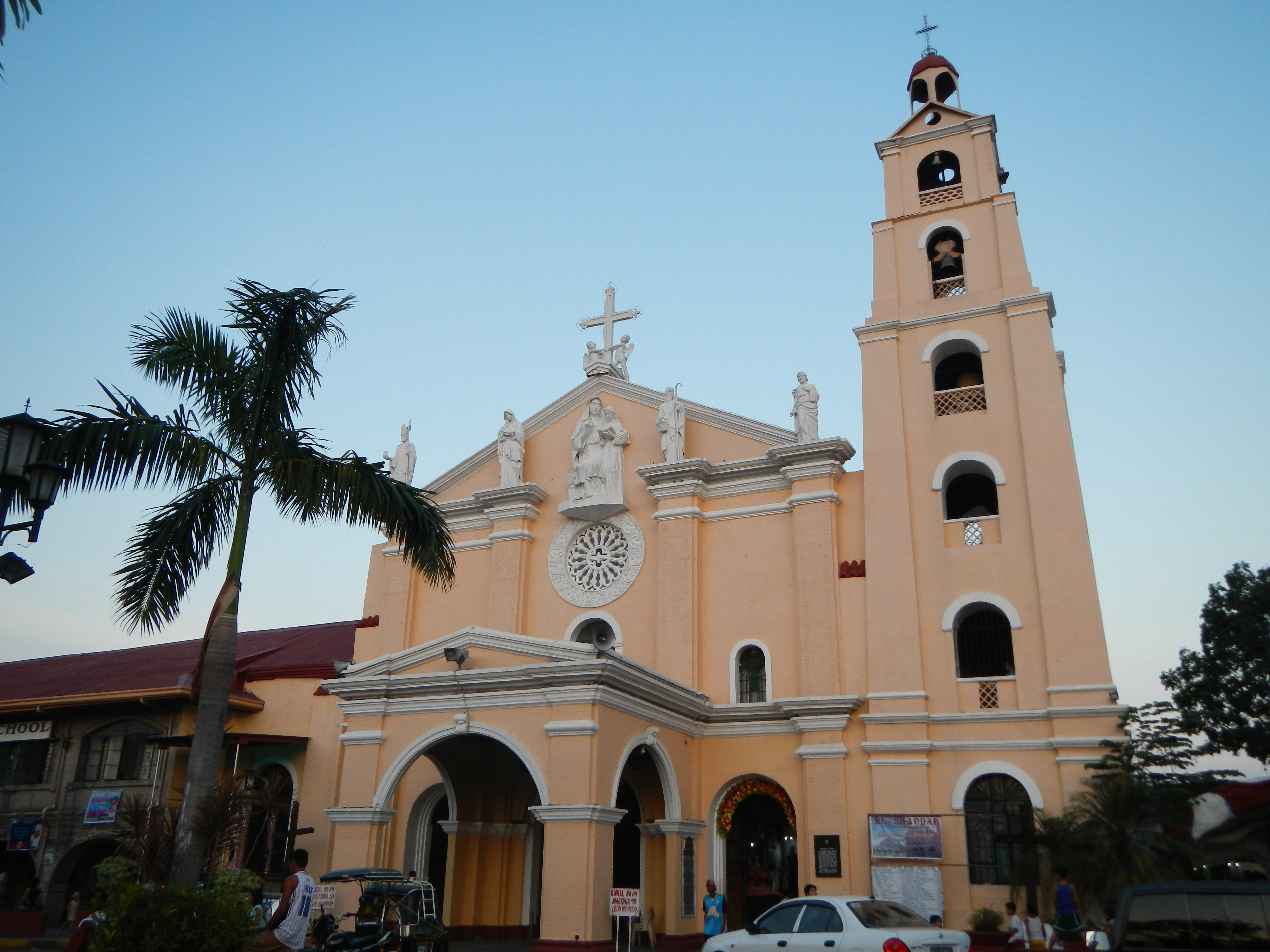 National Shrine of St. Anne in the PhilippinesVicariate of St. Anne Roman Catholic Diocese of Malolos Hagonoy, Bulacan[1]